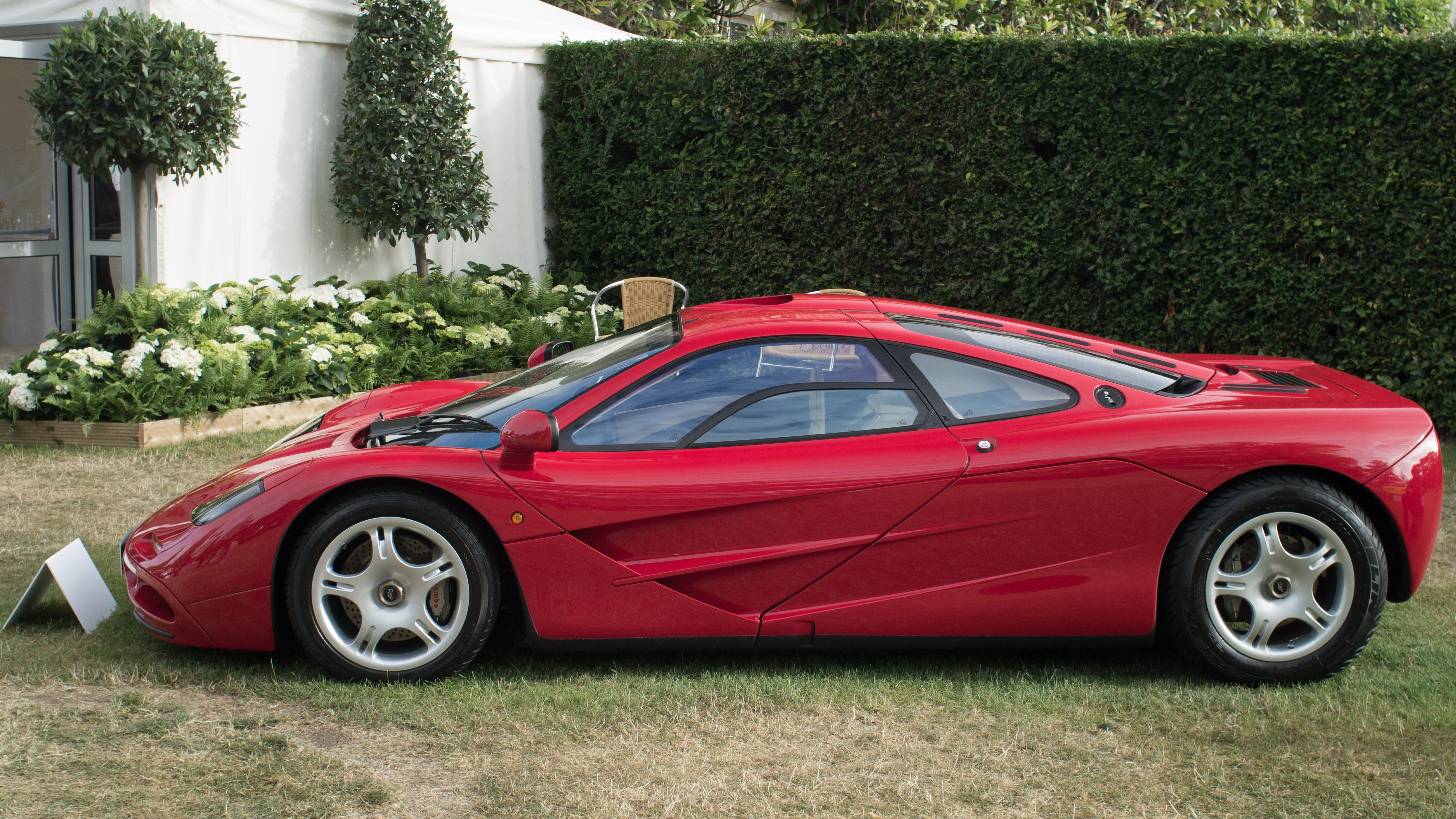 1995 McLaren F1 at the Goodwood Festival of Speed 2015.